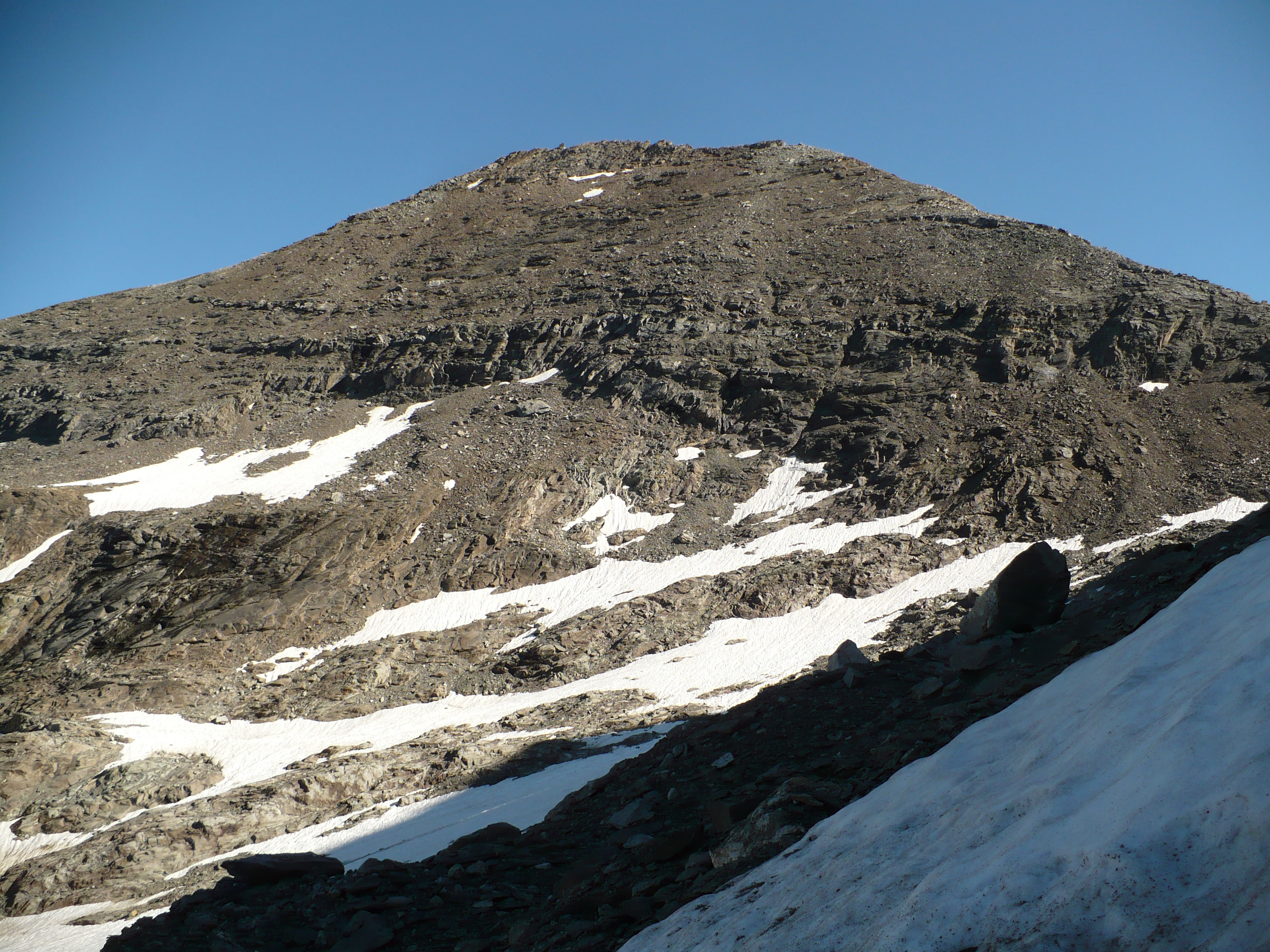 Punta d'Arnas (sud ridge) - Graian Alps